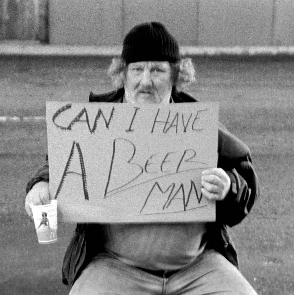 "Begging for fun". Man with sign "Can I Have A Beer Man"